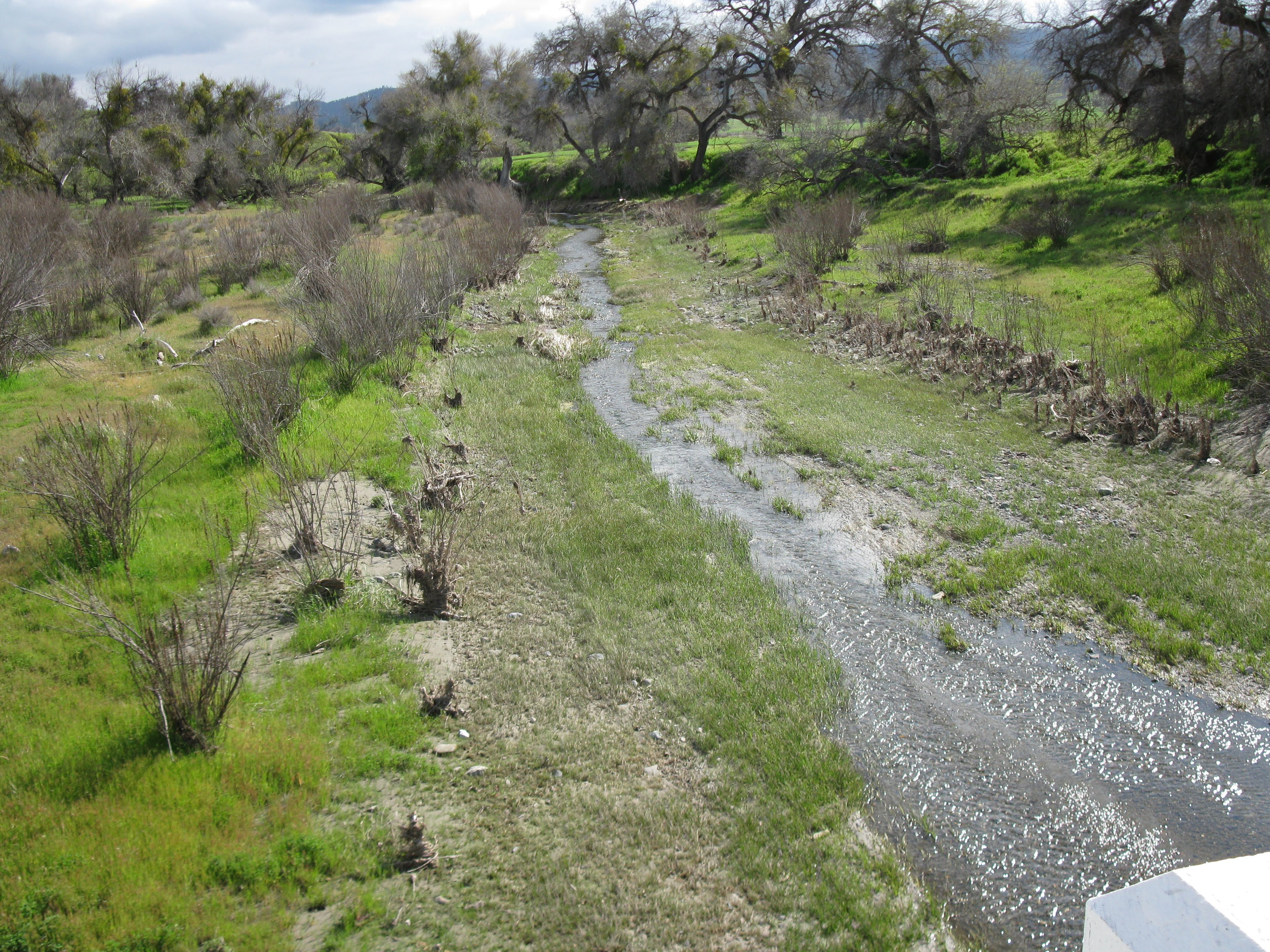 View of Little Cholame Creek from bridge on Parkfield-Coalinga Road, in the northwest corner of Cholame Valley, California. The creek crosses over the San Andreas fault on the lower right.